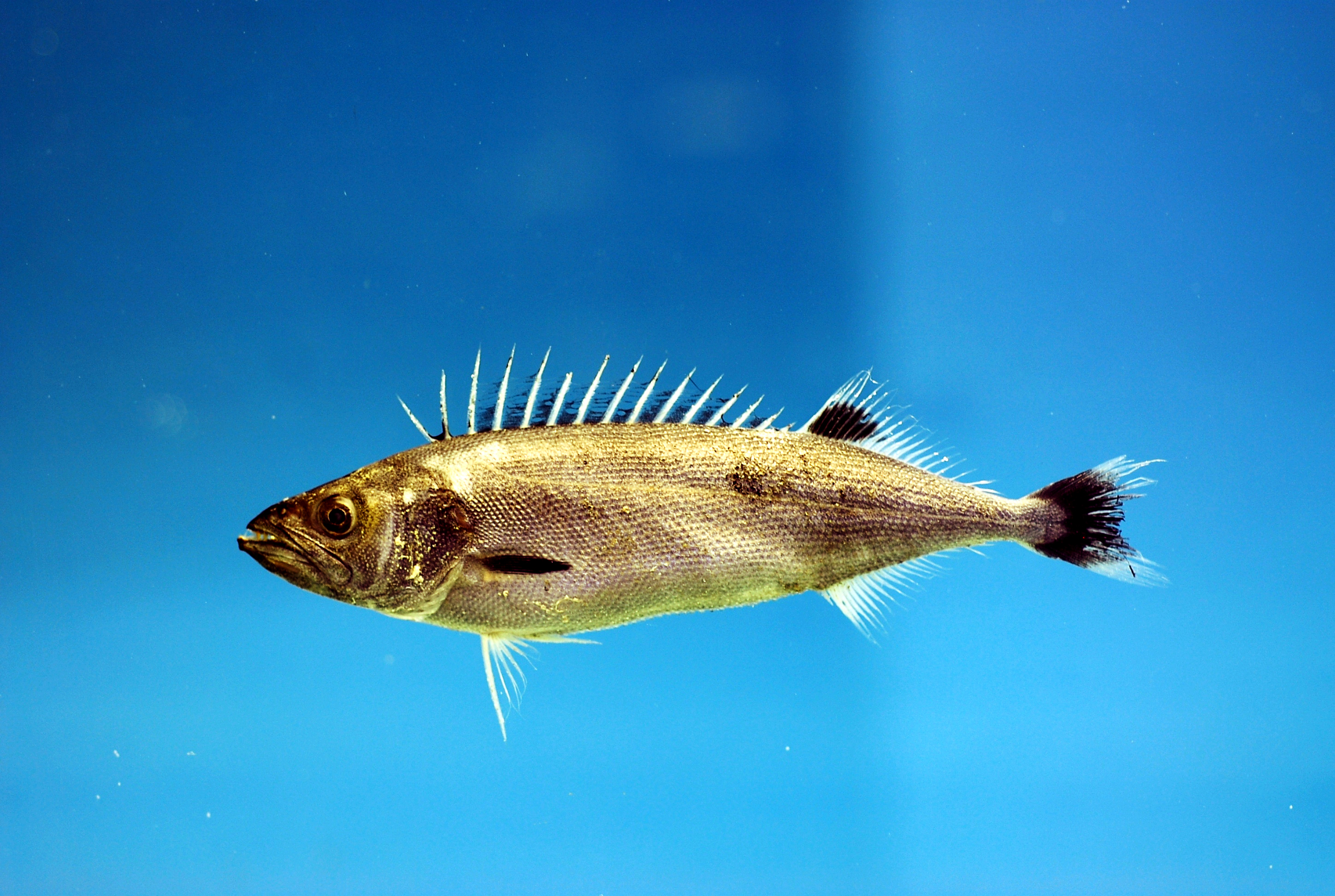 Juvenile oilfish ( Ruvettus pretiosus ). Gulf of Mexico.